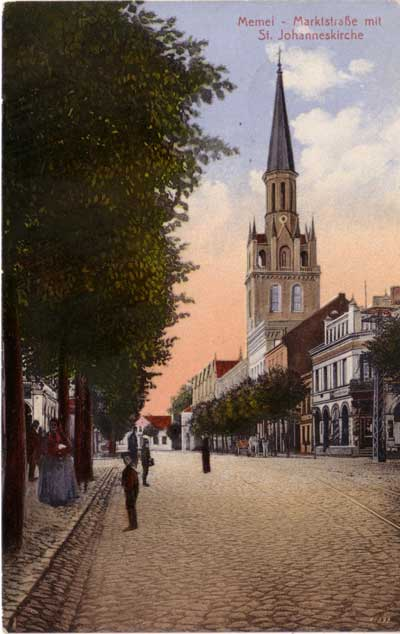 Klaipėda, Market Street with St. Johns church